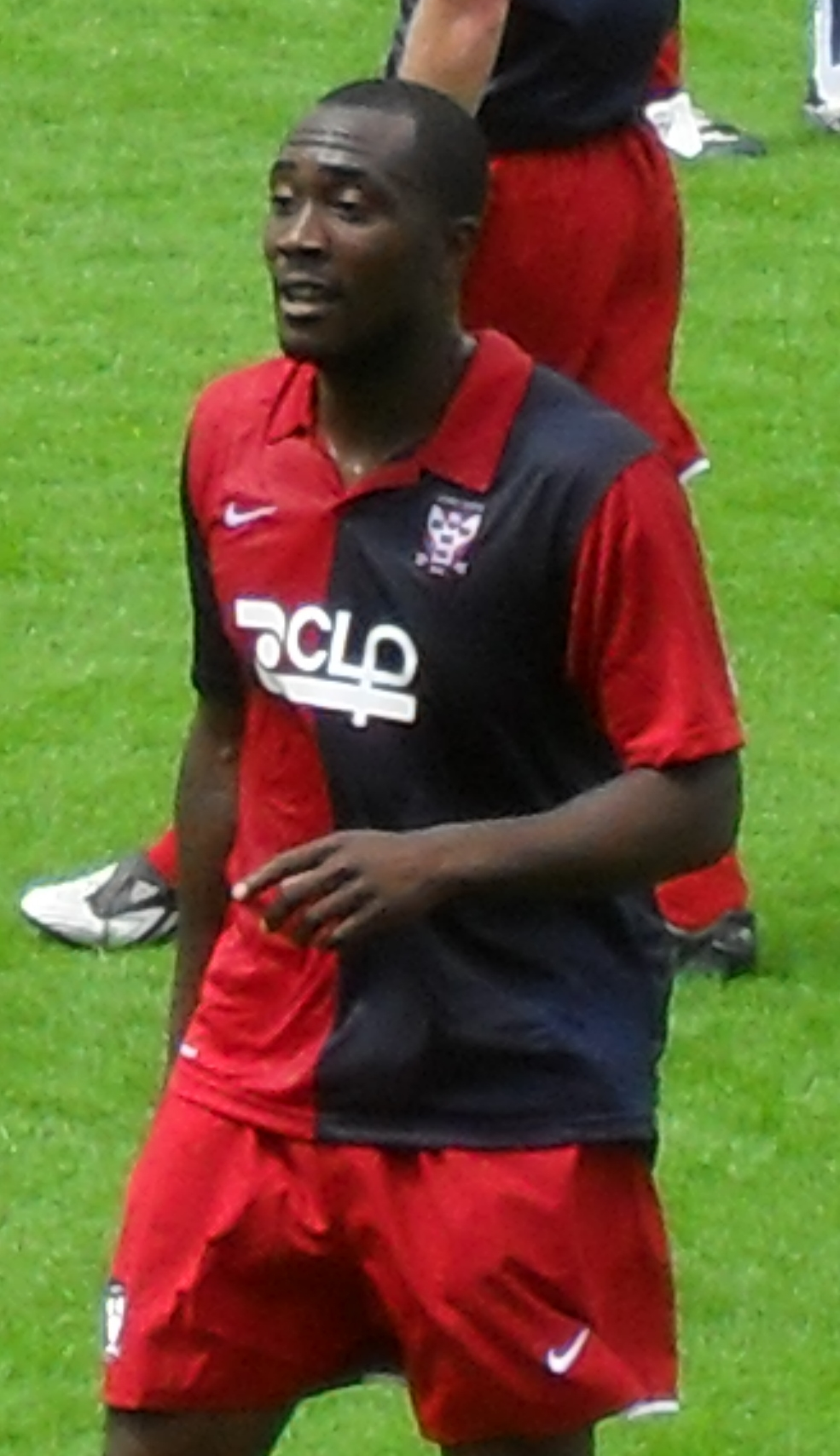 Richard Pacquette playing for York City against Leeds United at Bootham Crescent, York on 12 July 2009